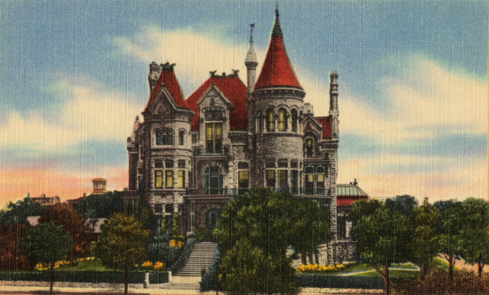 Bishop's Residence, Galveston, Texas as depicted on a postcard.